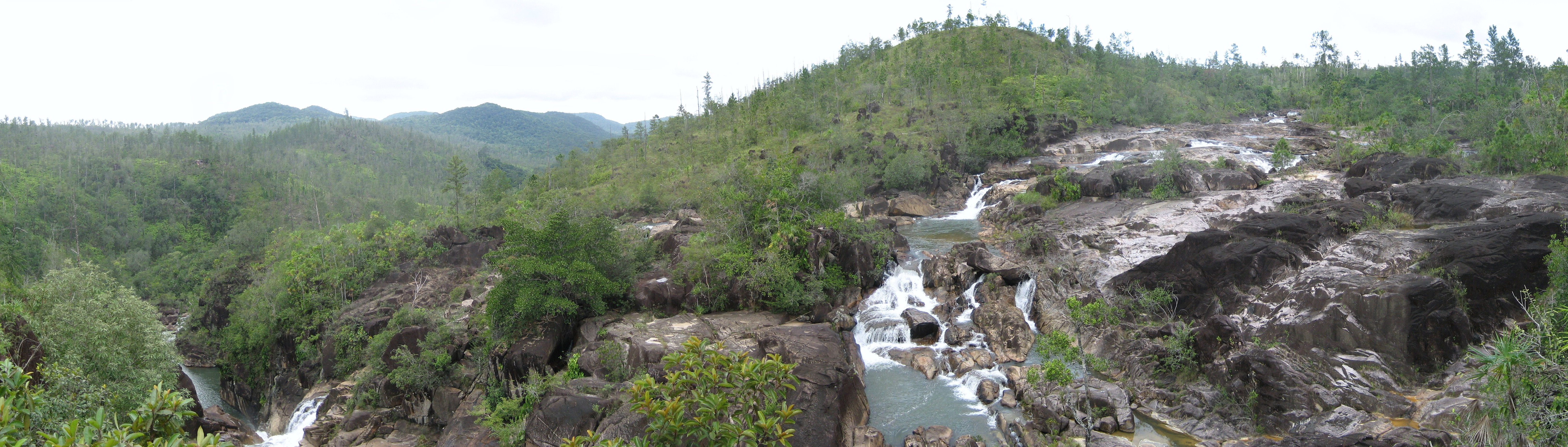 Panorama of the Mountain Pine Ridge Forest Reserve, in the Cayo District of Belize.